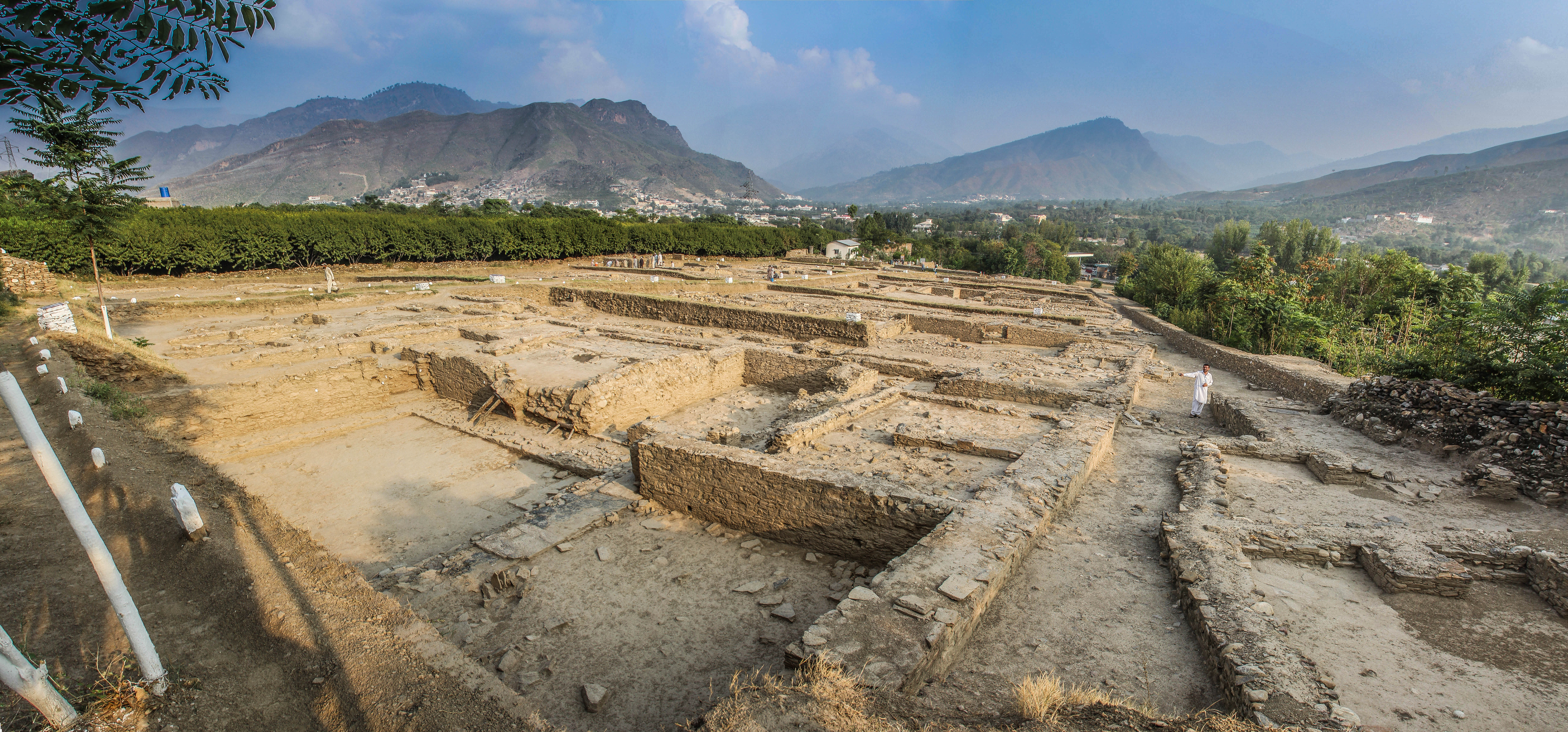 Barikot Ghundai: Bazira, the city of Alexander the Great. This Indo-Greek urban defensive works, which is the easternmost example of Hellenistic military architecture in Asia, is located west of the modern village of Barikot and the site is marked by a steep hill overlooking the Swat River. This is a photo of a monument in Pakistan identified as the KPK-80